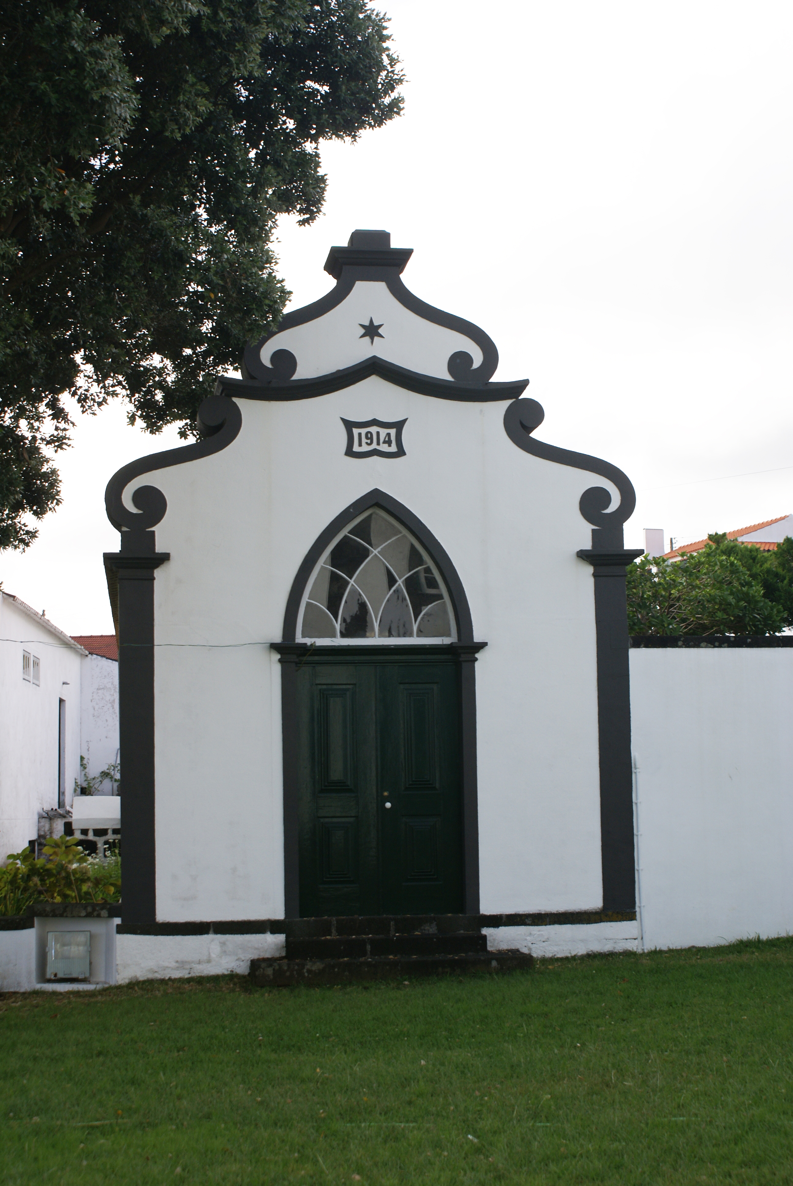 Império do Espírito Santo de São Mateus, fachada, São Mateus, concelho da Madalena do Pico, ilha do Pico, Açores, Portugal